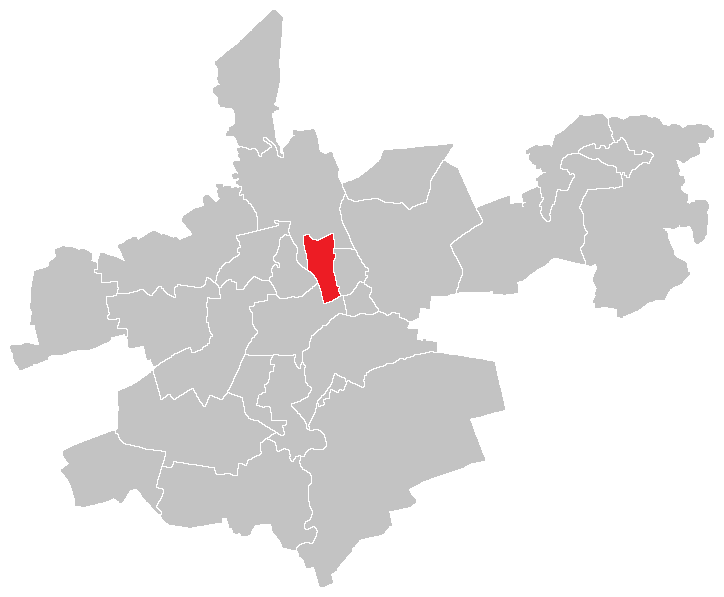 Location map of Olomouc district Klášterní Hradisko